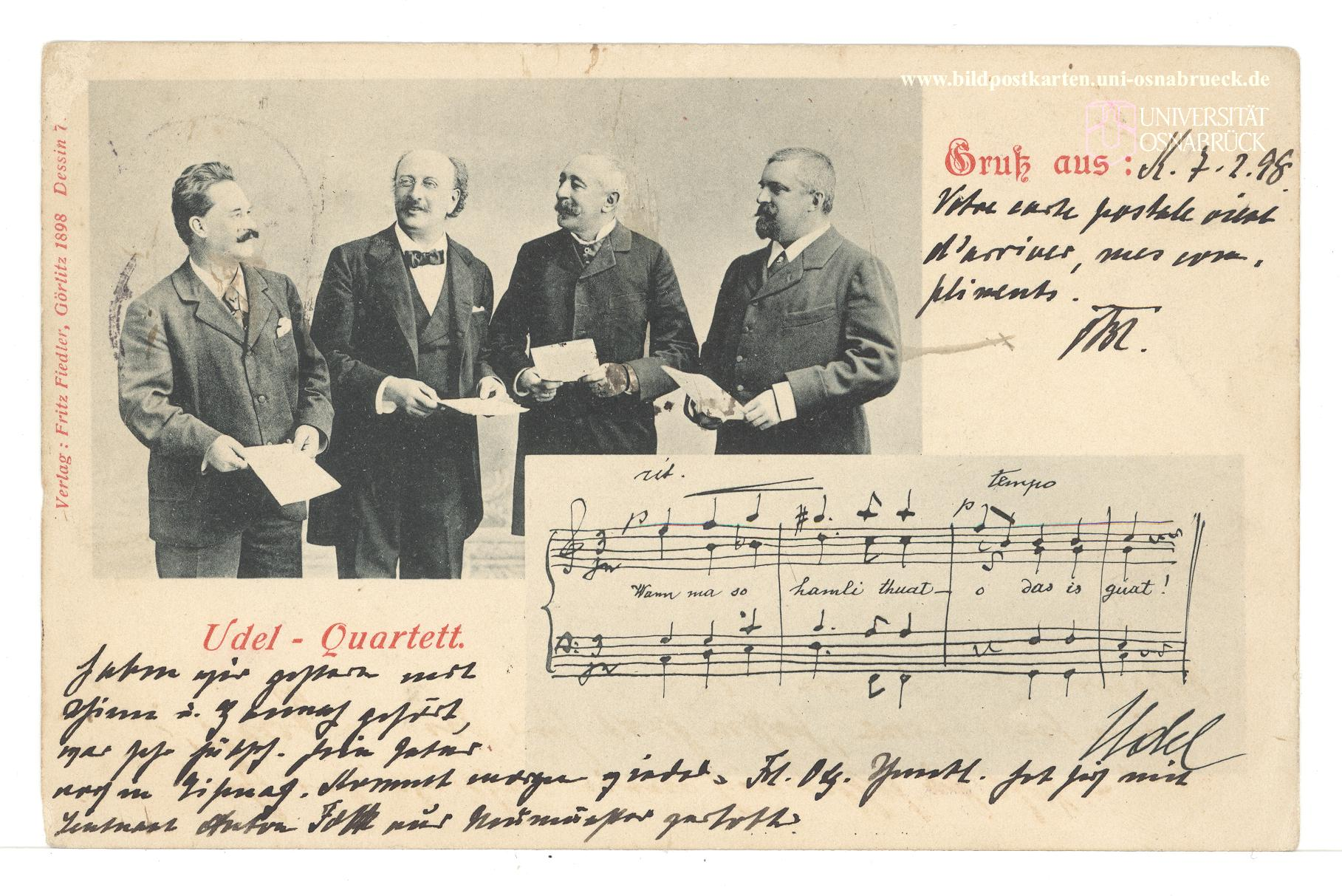 Postcard of the Austrian singing Udel-Quartett. Verlag Fritz Fiedler (Görlitz), 1898.